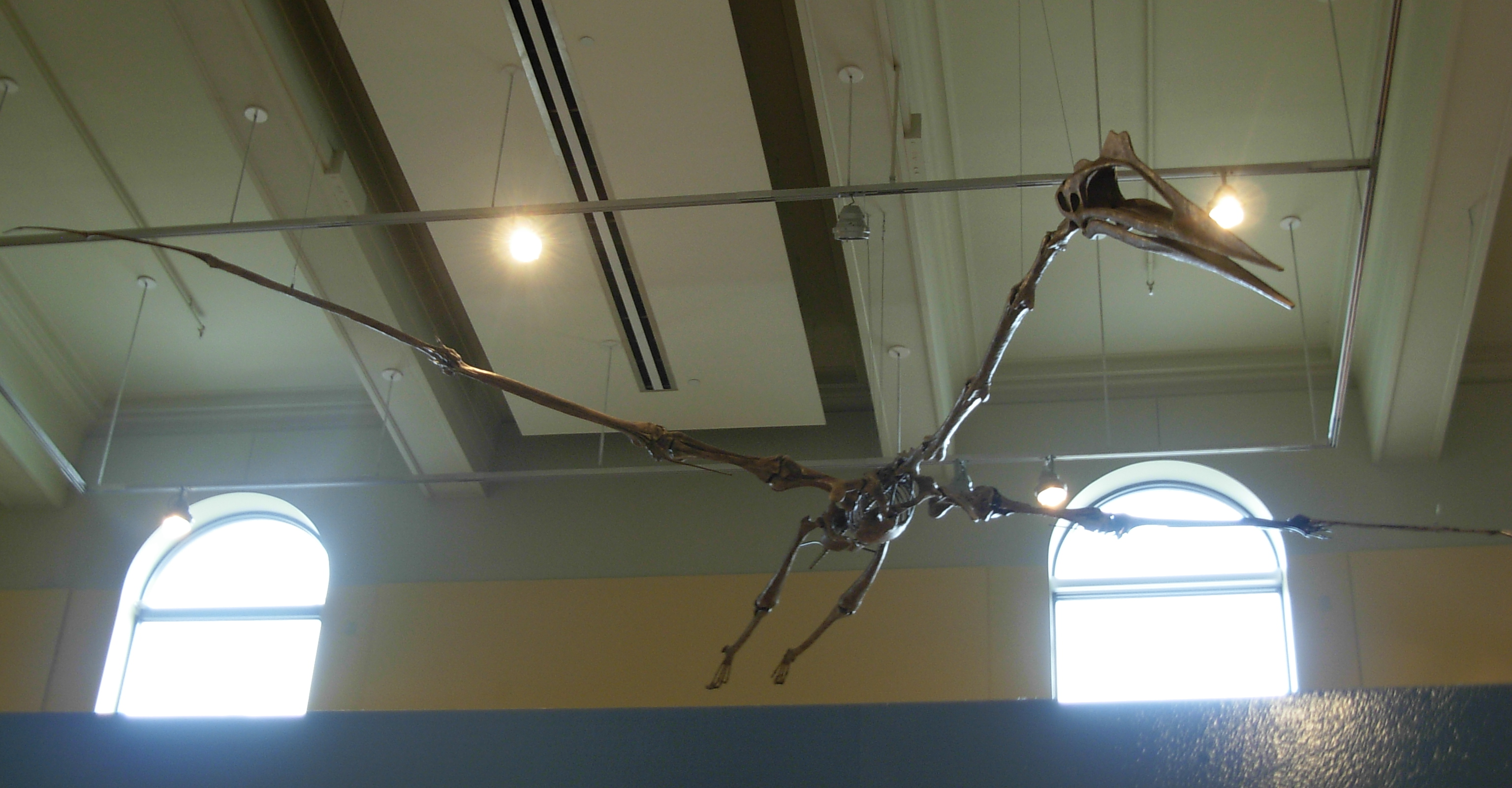 Quetzalcoatlus.